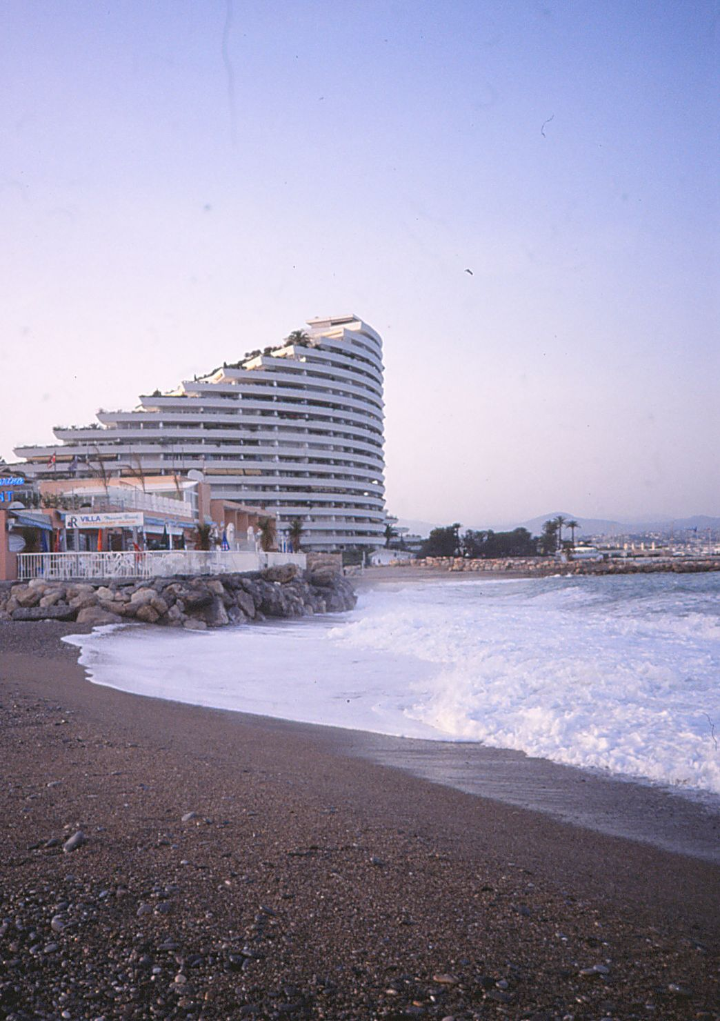 Marina Baie des Anges in Villeneuve-Loubet at the shore of the Mediterranean Sea. June 18, 2006.